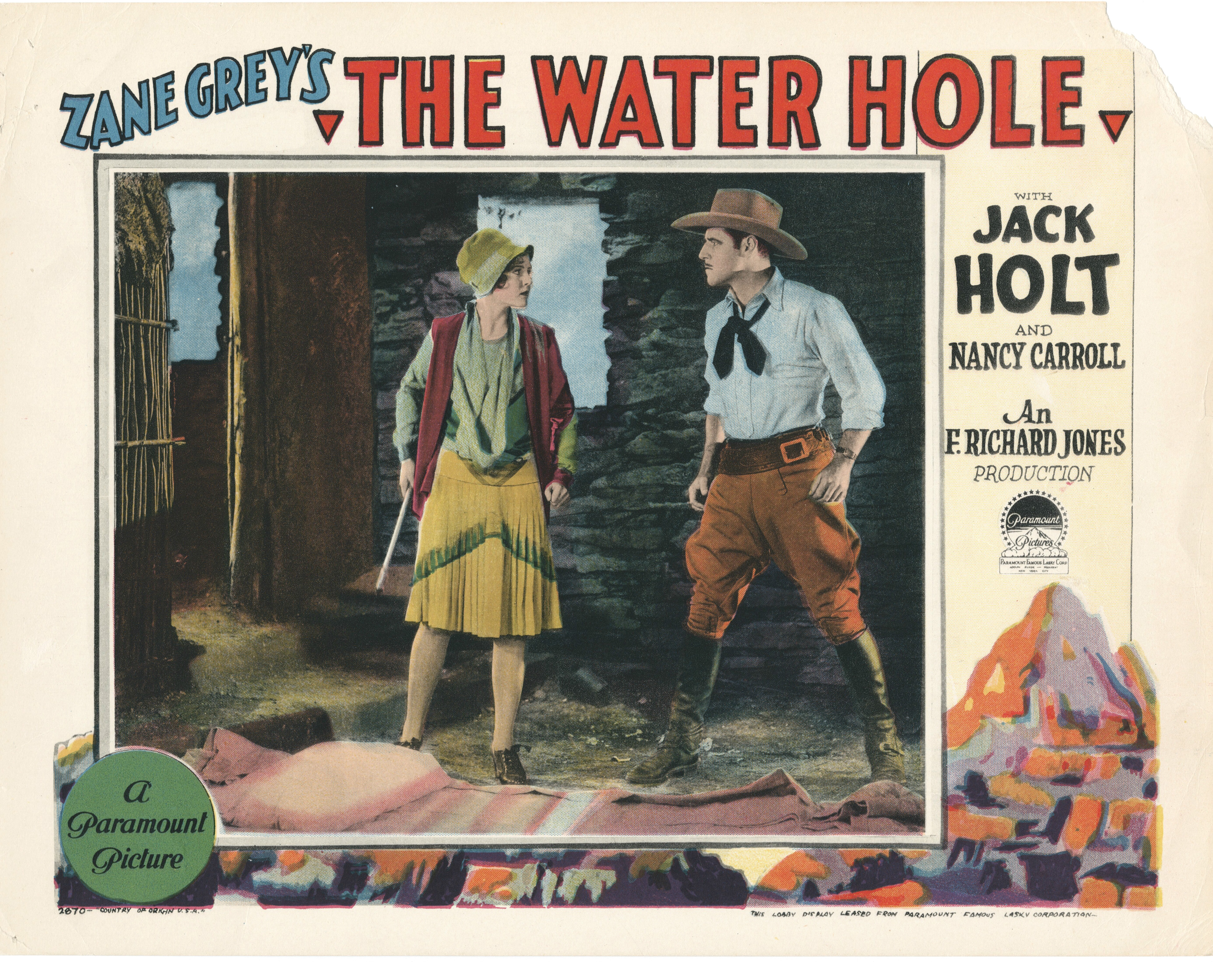 Lobby card for the American western film The Water Hole (1928).